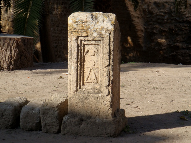 A Punic stela in Tophet, with a symbol of Tanit